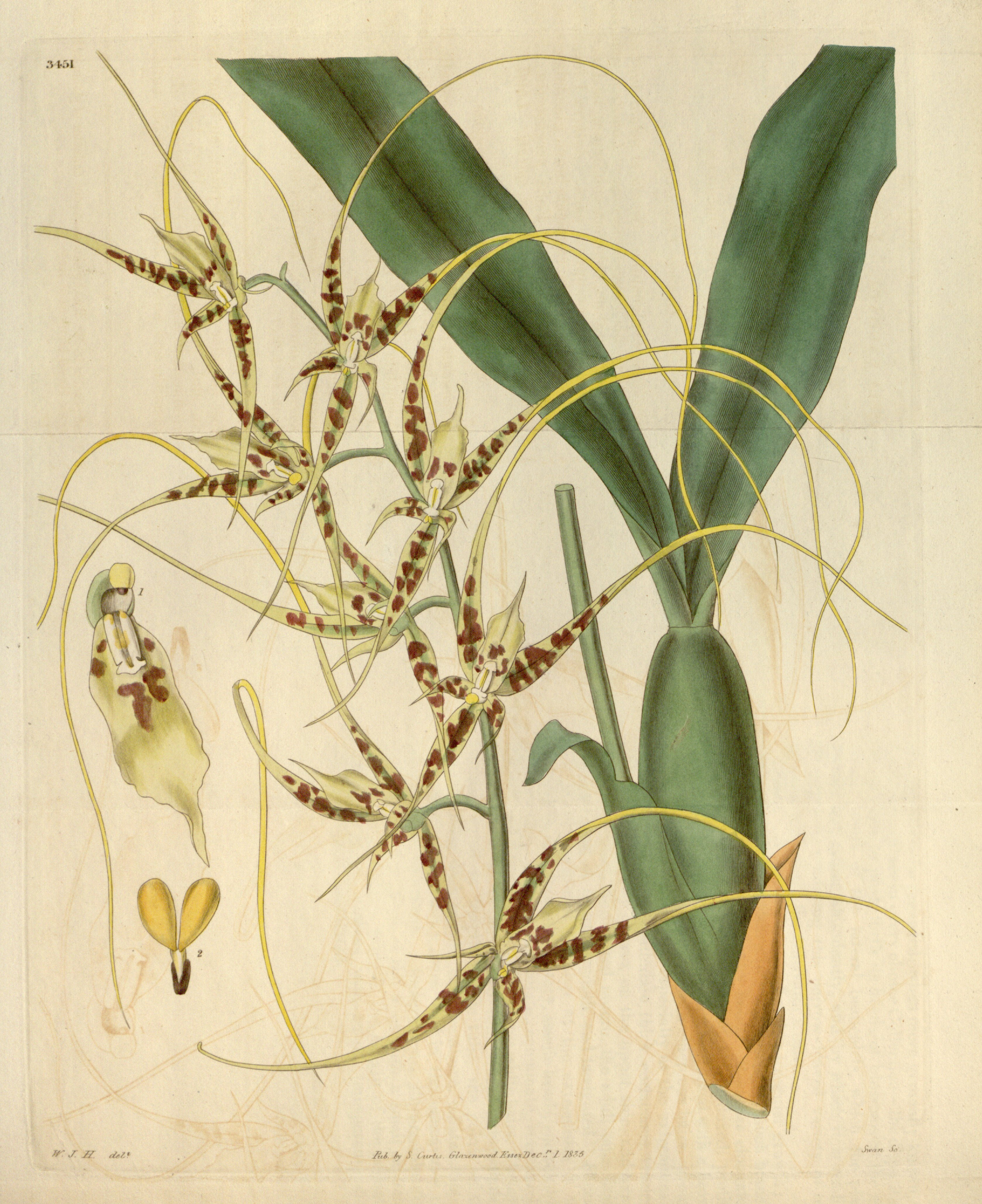 Illustration of Brassia caudata